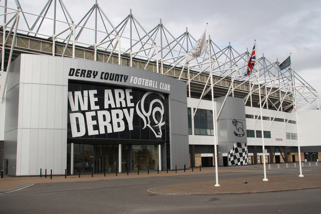 Pride Park, near to Alvaston, Derby, Great Britain. Home of Derby County Football Club